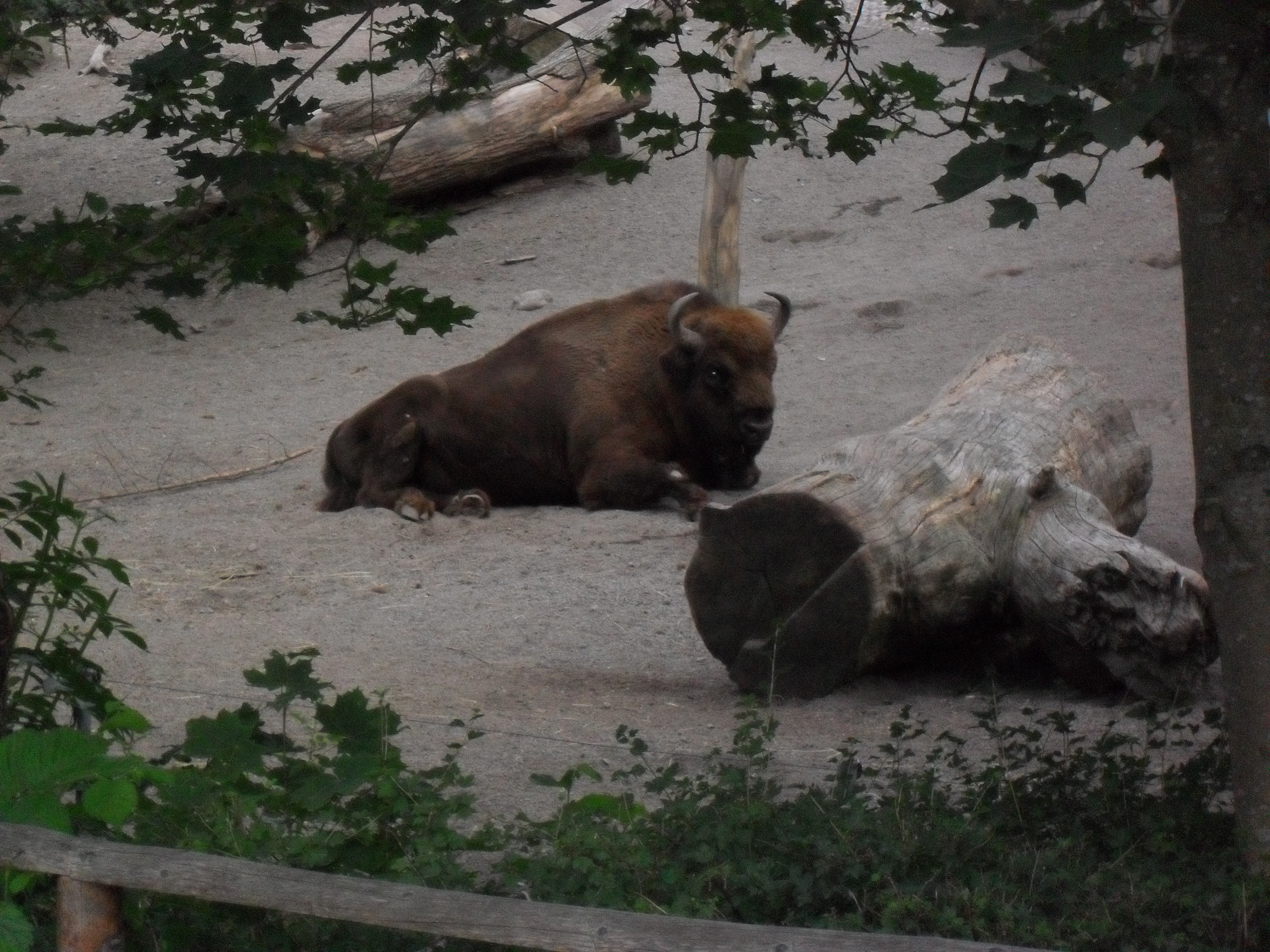 A Wisent (Bison bonasus) at Skansen, Stockholm, Sweden.